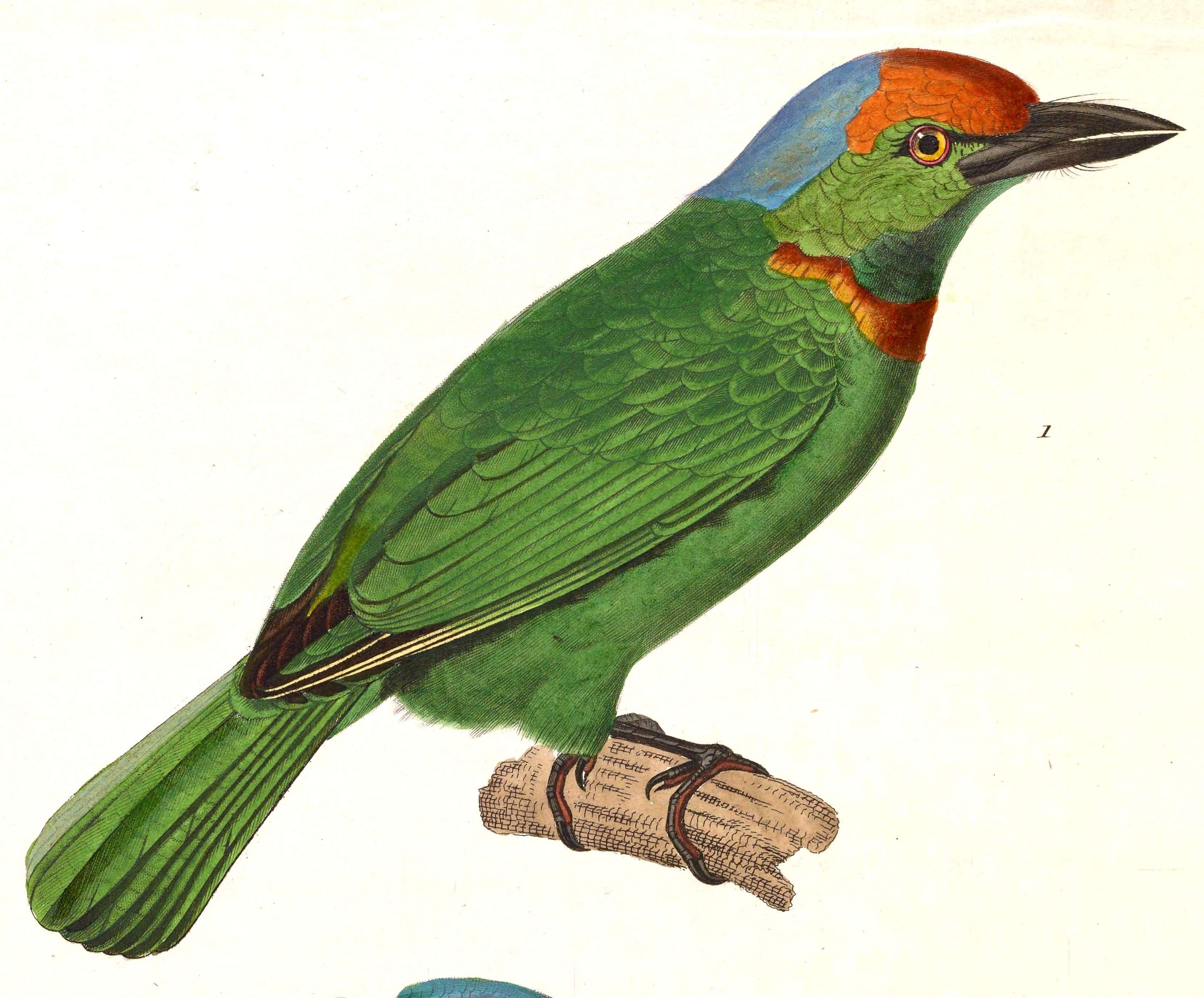 « Bucco armillaris » = Megalaima armillaris (Flame-fronted Barbet) - adult